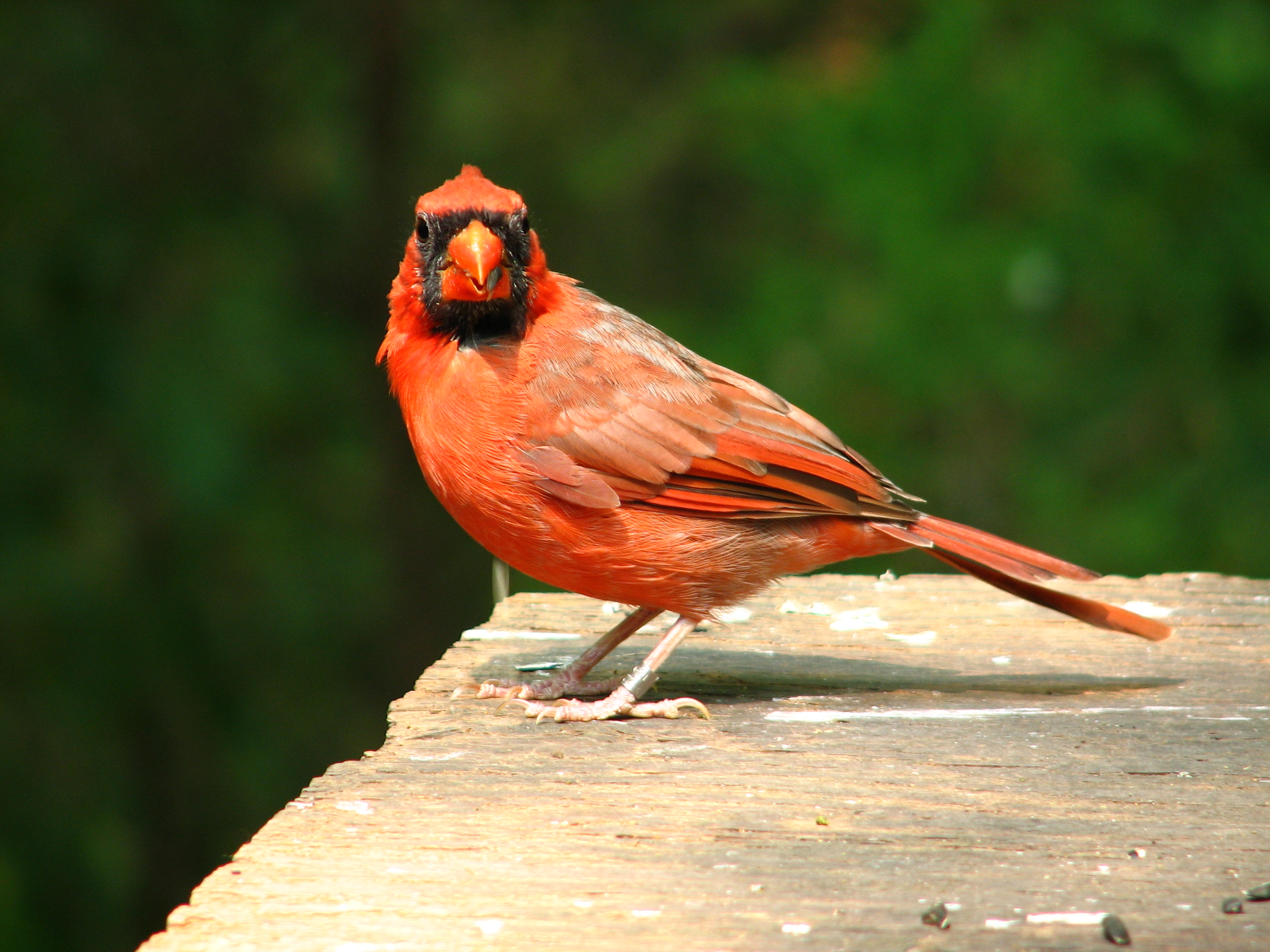 Cardinalis cardinalis, male